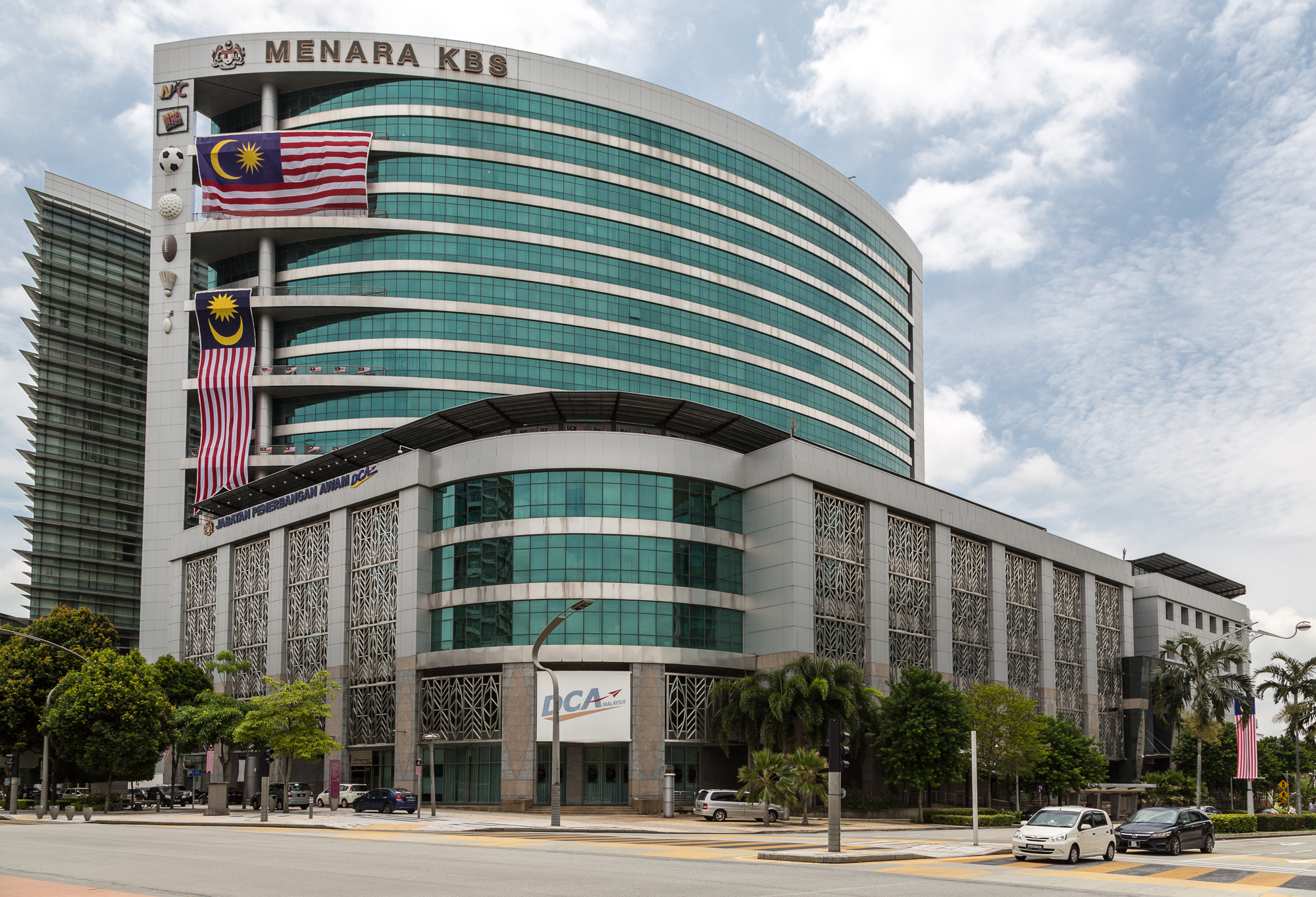 Putrajaya, Malaysia: Ministry of Youth and Sport (Background), Department of Civil Aviation (Foreground)